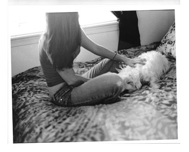 Mazie Contreras